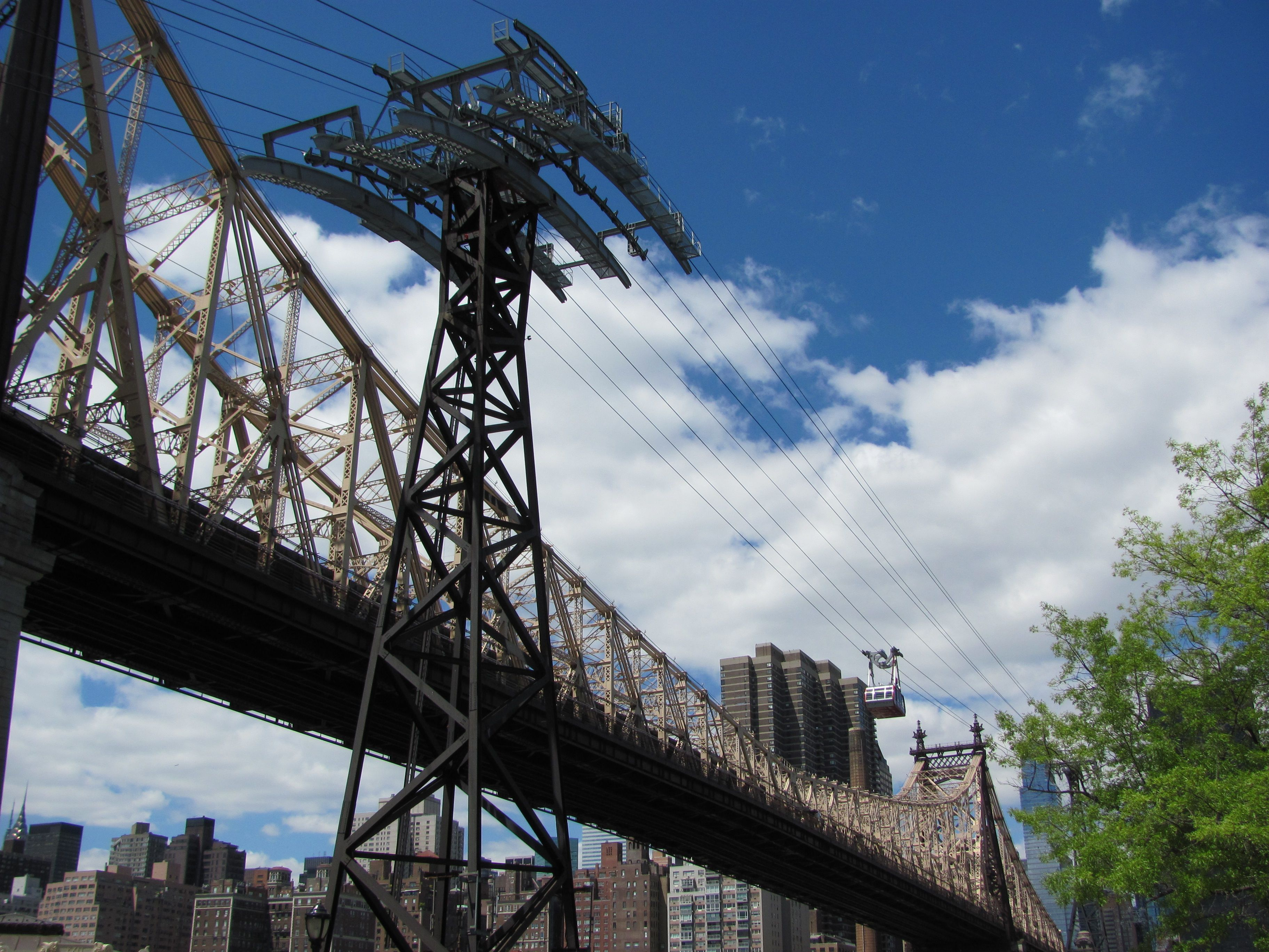 Roosevelt Island Tramway. ZIP 10004.